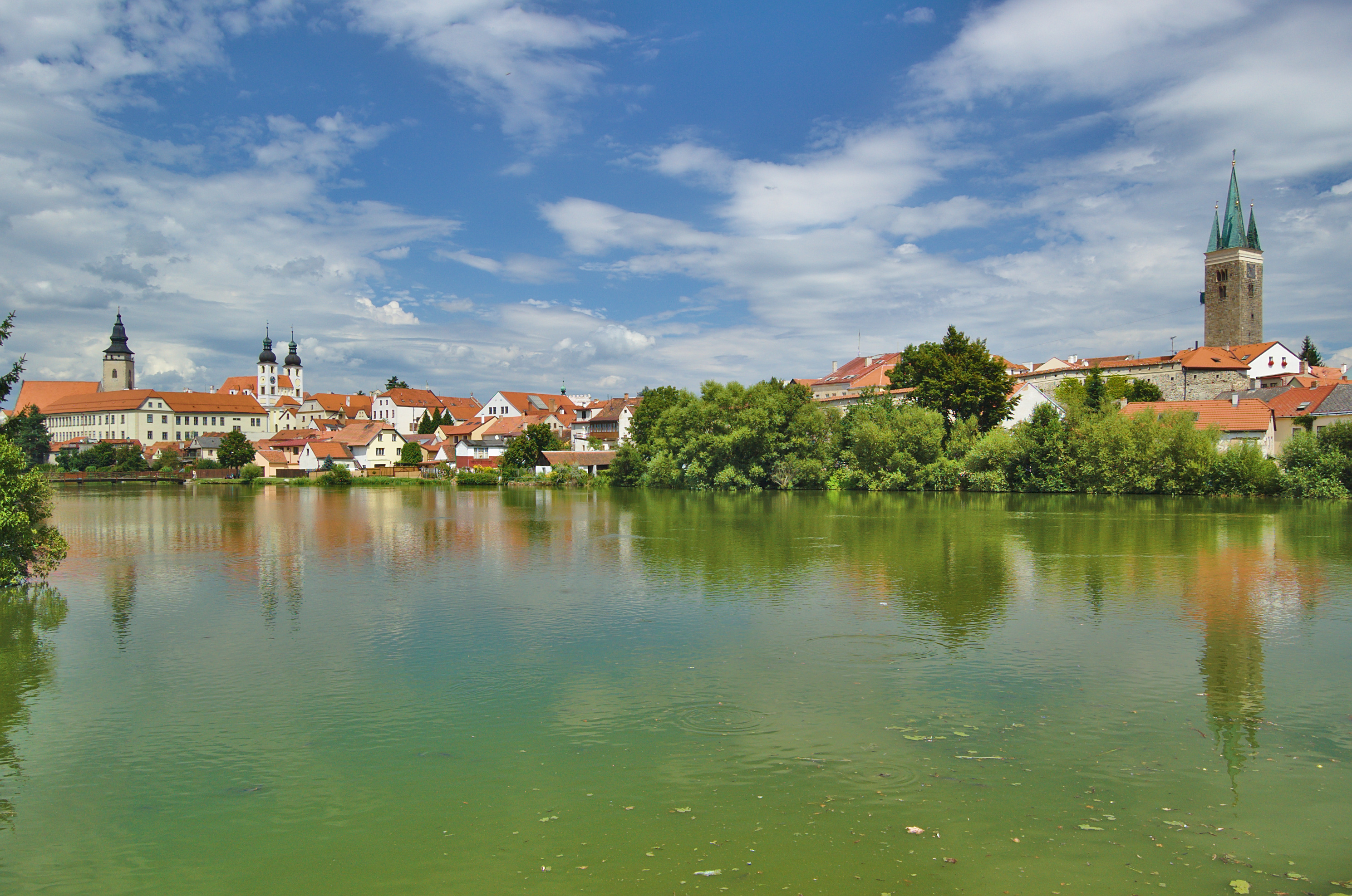 View at the inner town over Ulický pond, Telč